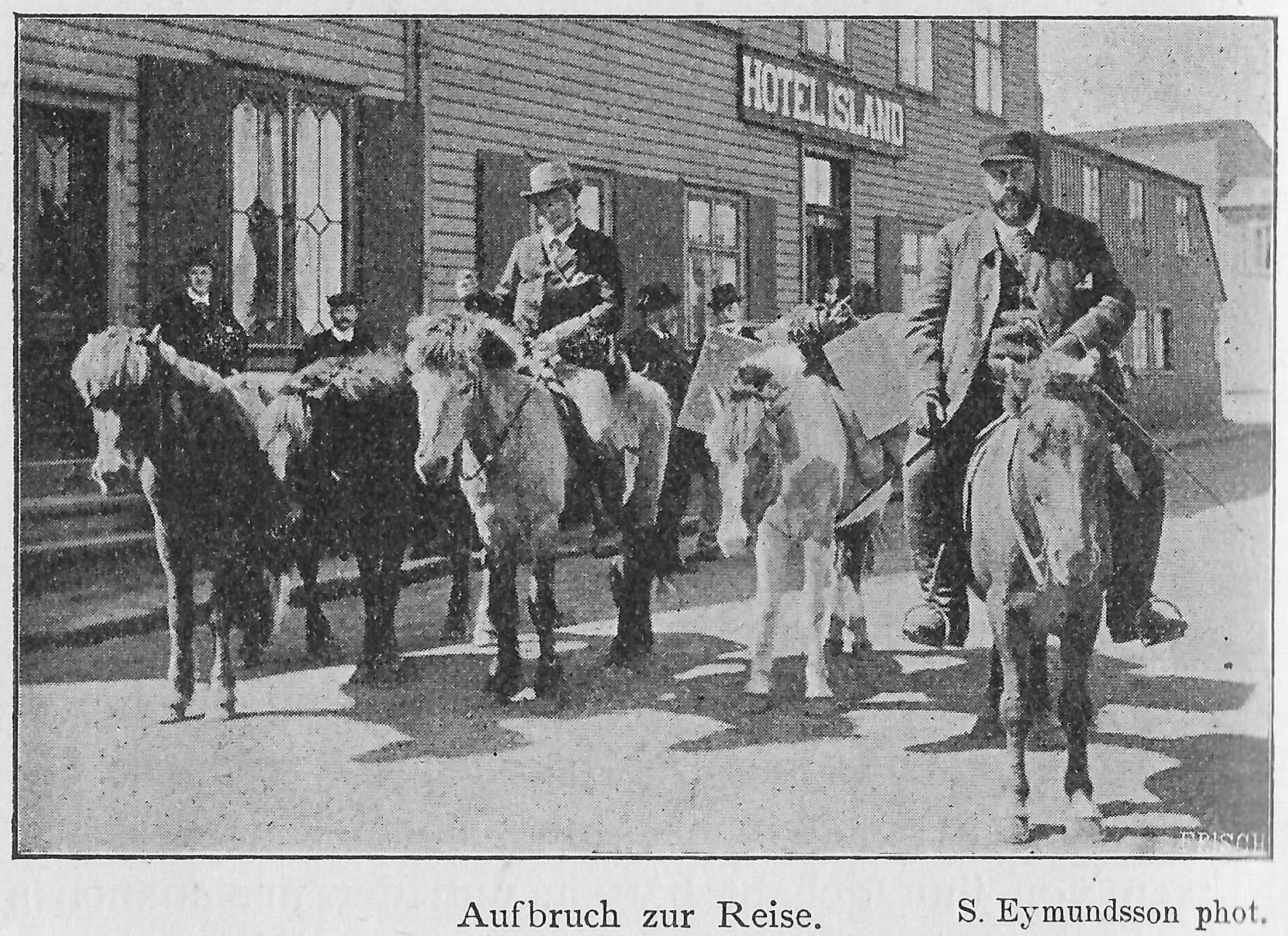 German philologist Bernhard Kahle's travel group setting out from Hótel Ísland in Reykjavík in 1897. Photo by Sigfús Eymundsson (1837-1911); "Frisch" in the lower right corner is probably the name of the reprographic studio.